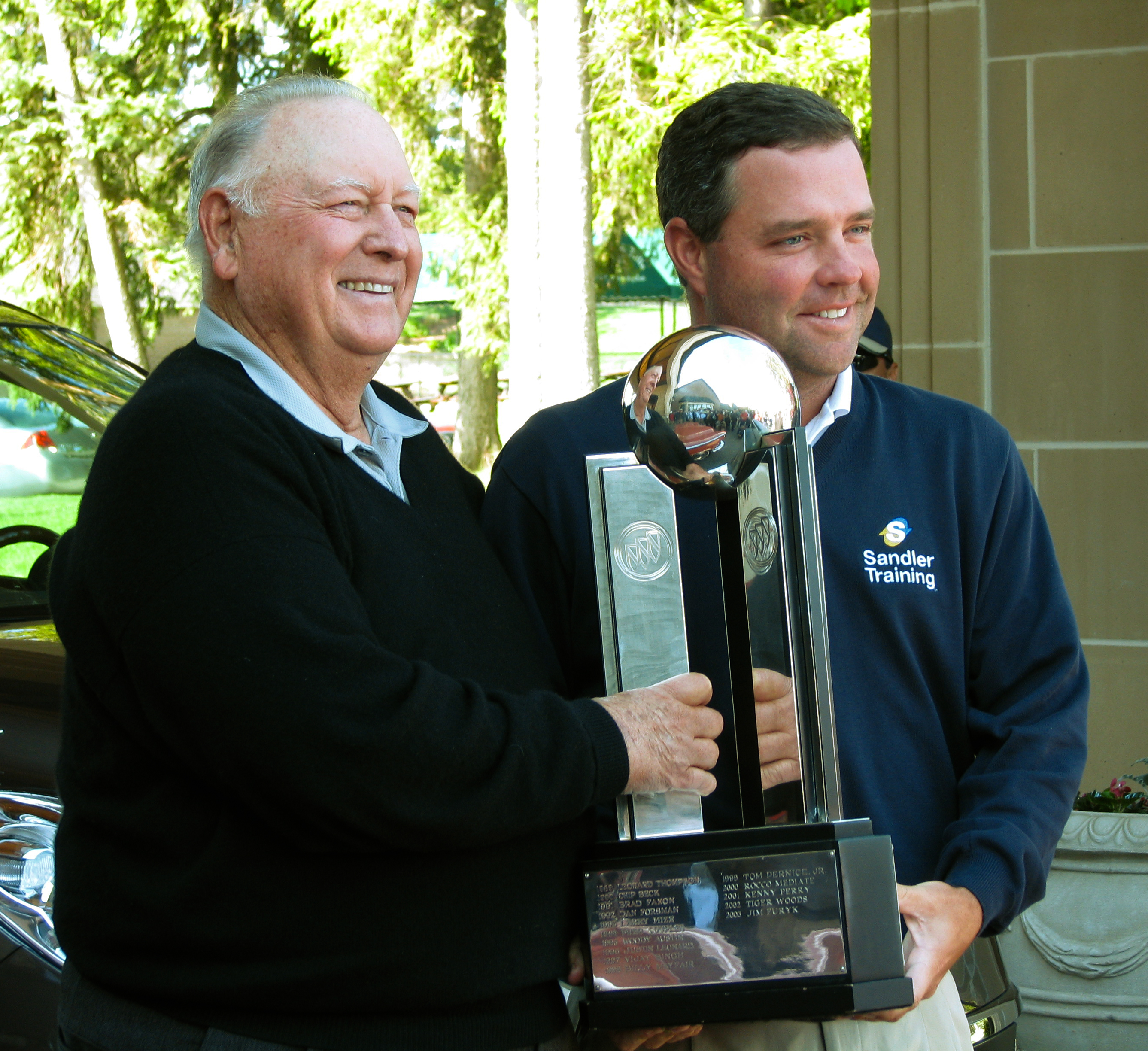 The 1958 and 2007 Buick Open champs, Billy Casper and Brian Bateman, help kick off the tournament's 50th anniversary season.